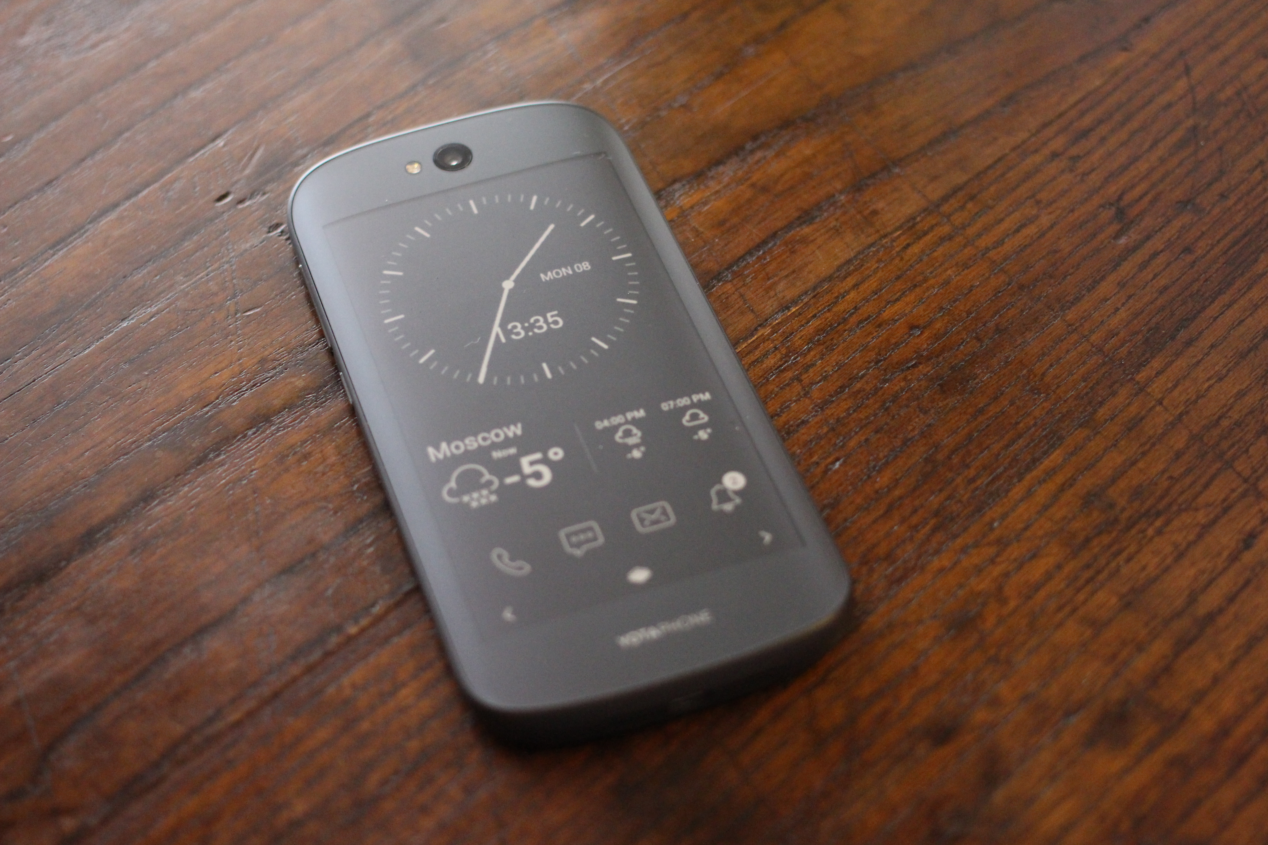 YotaPhone 2